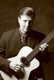 Self